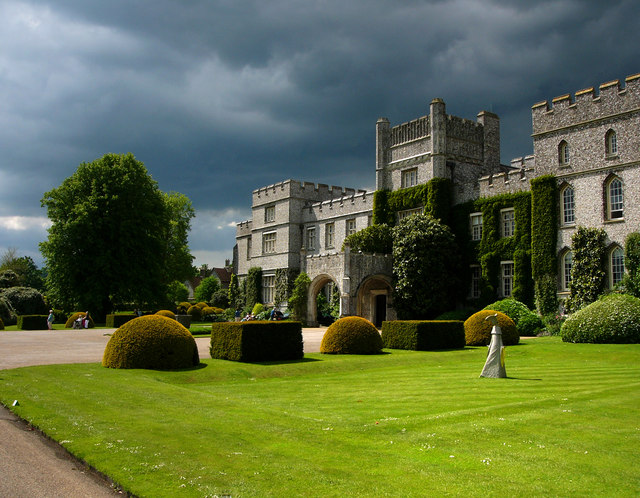 West Dean Gardens